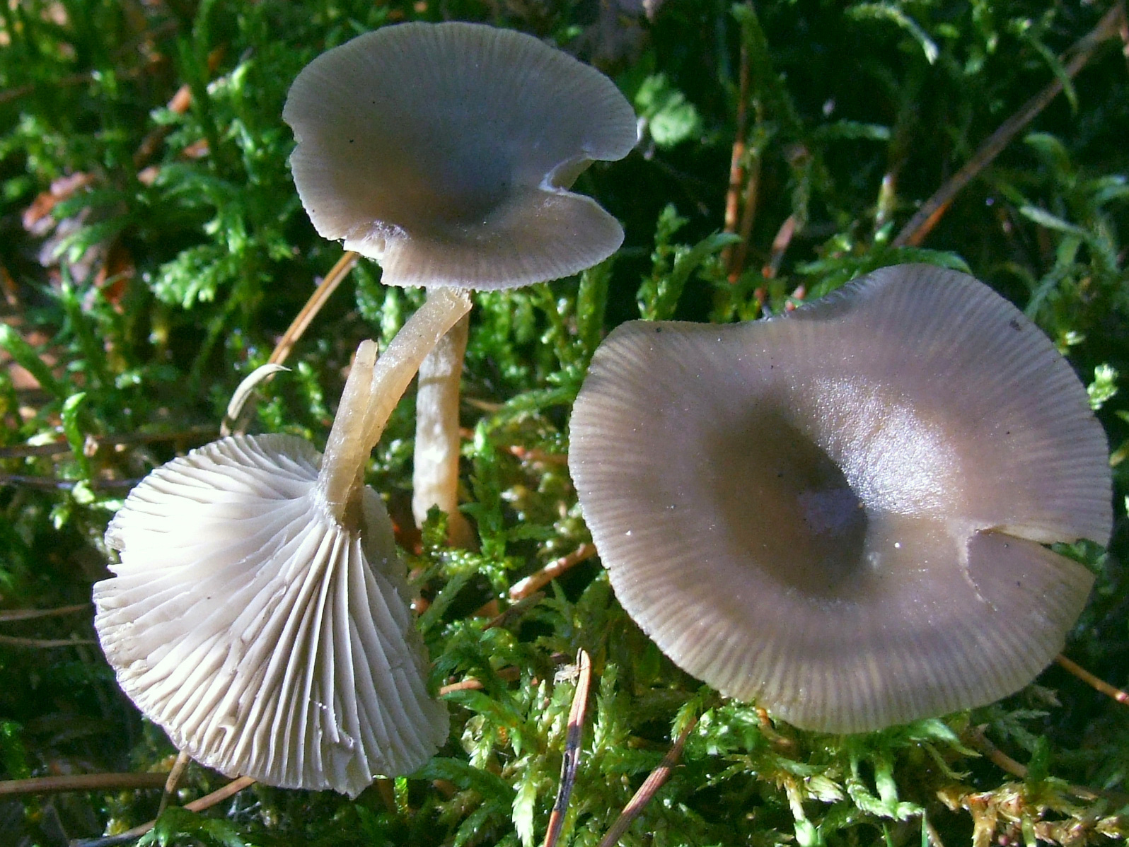 Clitocybe metachroa